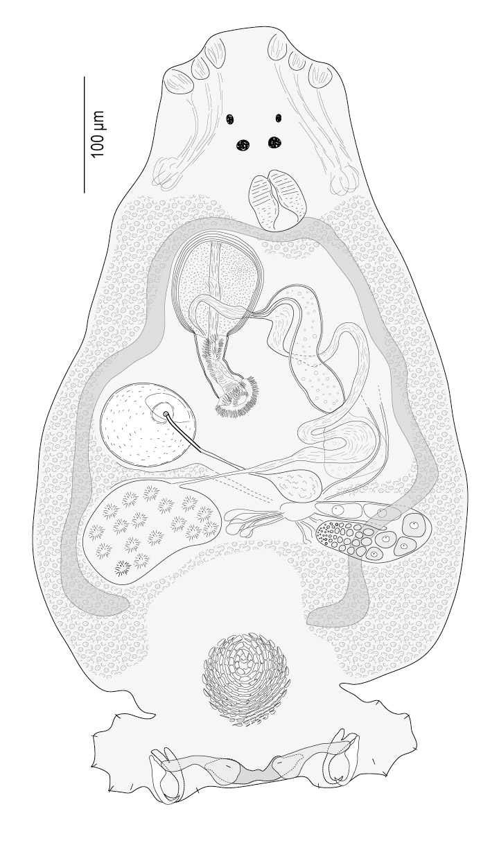 Echinoplectanum laeve Justine & Euzet, 2006 (Monogenea, Diplectanidae), a parasite of the fish Plectropomus laevis off New Caledonia. Composite figure, mainly from holotype. Original drawing by Jean-Lou Justine. Species described in the article: Justine, J.-L. & Euzet, L.; 2006: Diplectanids (Monogenea) parasite on gills of the coralgroupers Plectropomus laevis and P. leopardus (Perciformes, Serranidae) off New Caledonia, with the description of five new species and the erection of Echinoplectanum n. g. Systematic Parasitology, 64, 147-172.